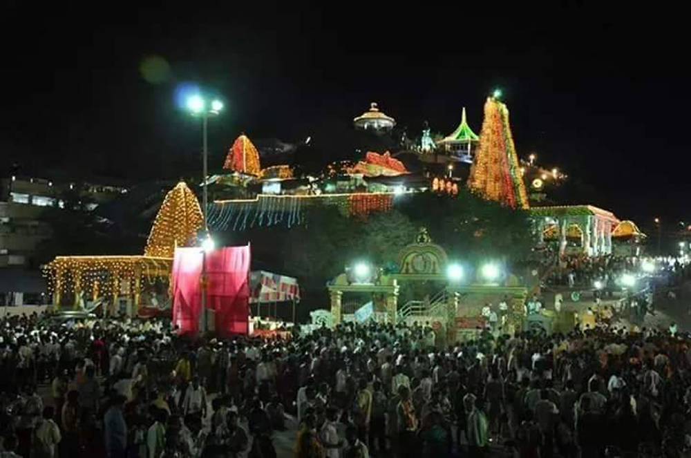 Sivaratri Celbrations in Kotappakonda